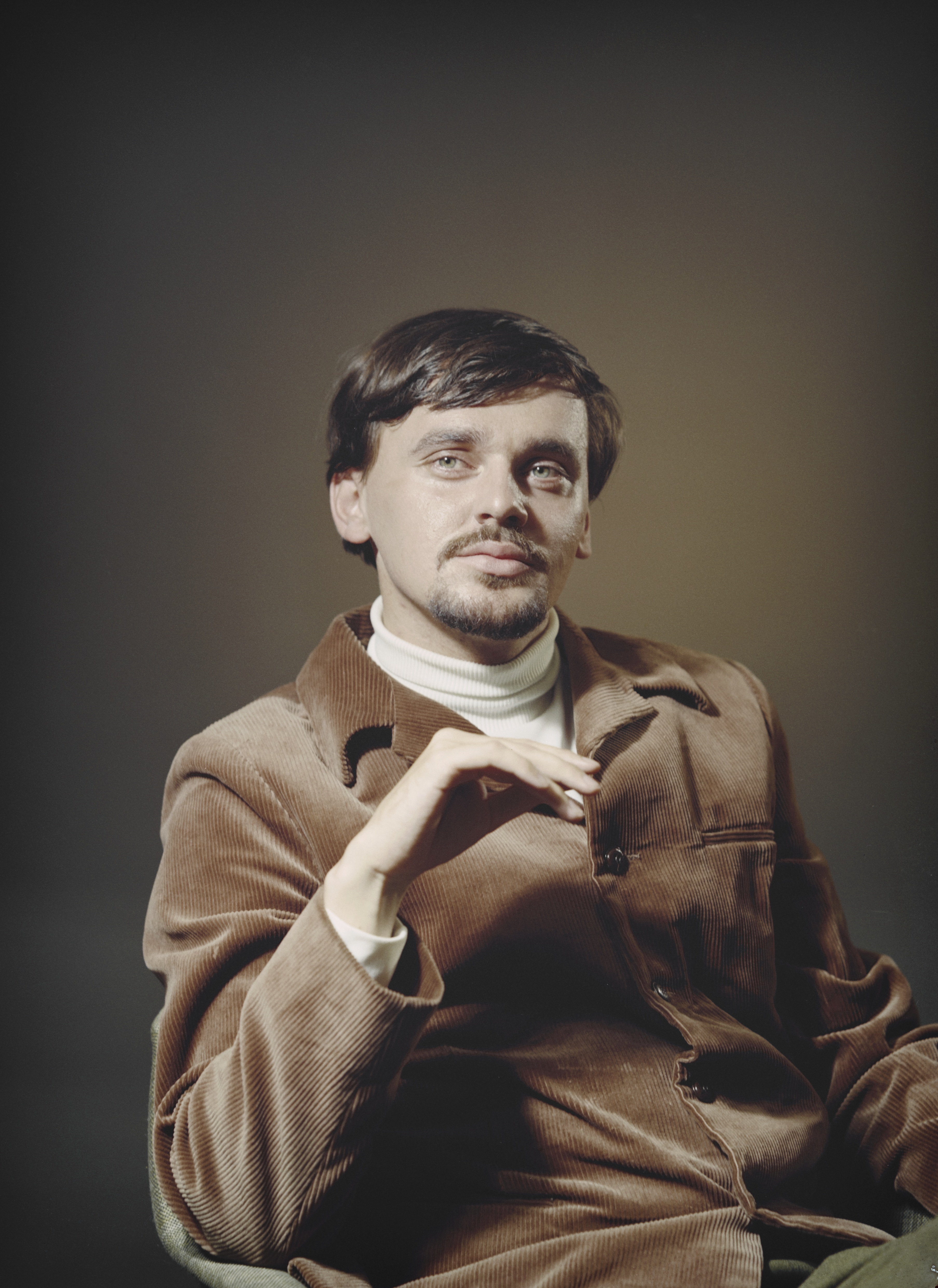 Photograph of the Finnish artist Pauli Vuorisalo (1944–2017).